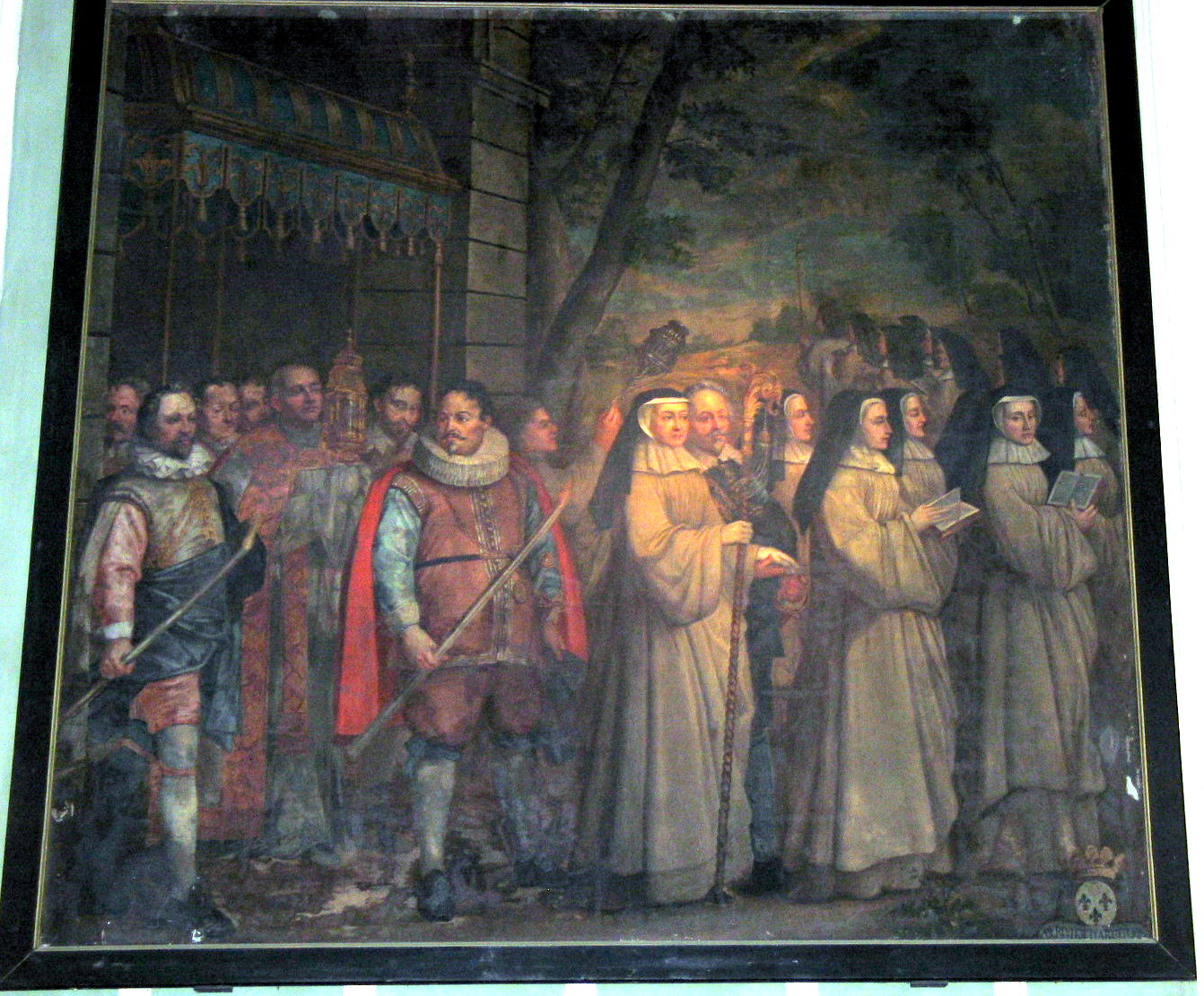 Painting of Cistercians of the Herkenrode Abbey in Kuringen, Hasselt to be seen in the Sint-Quintinus cathedral of Hasselt Belgium